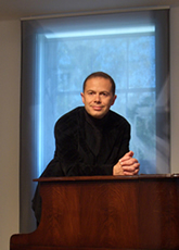 Dominic Alldis